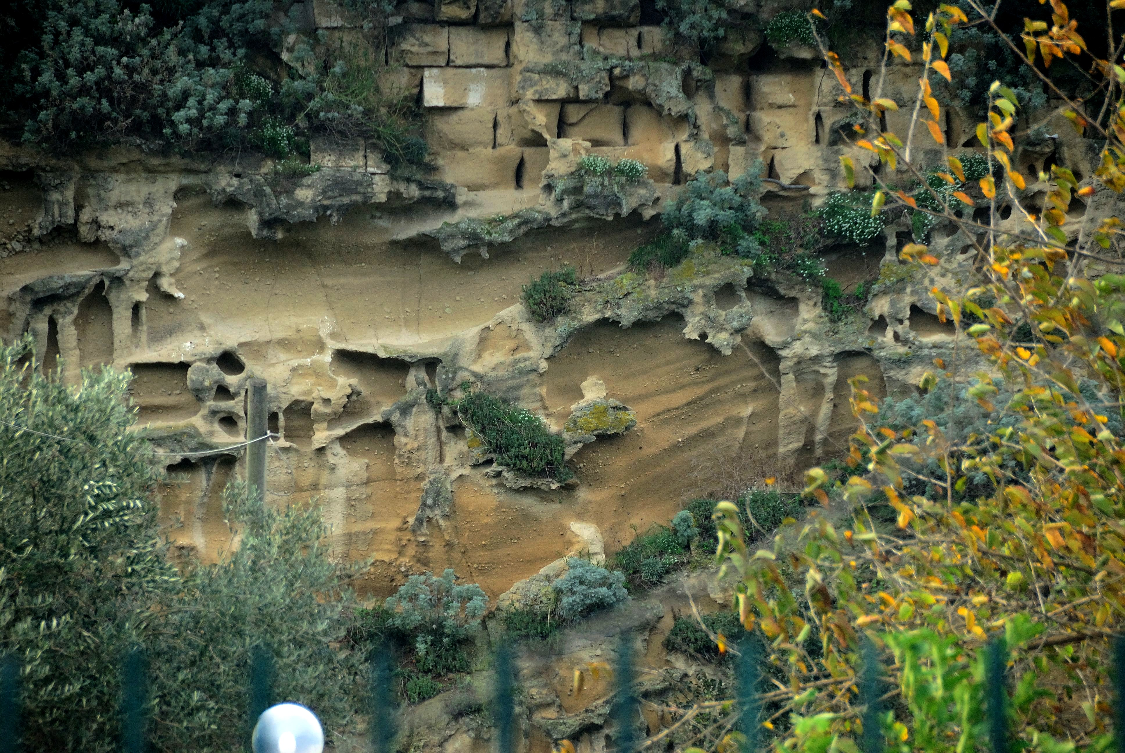 Field trip to Campi Flegrei